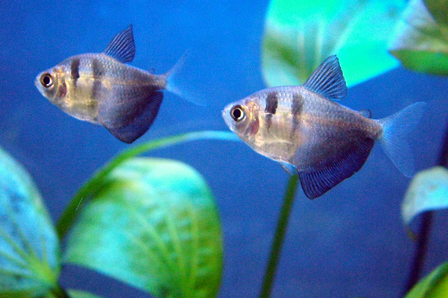 Two Black Tetras - Gymnocorymbus ternetzi - swimming in a typical home water tank.